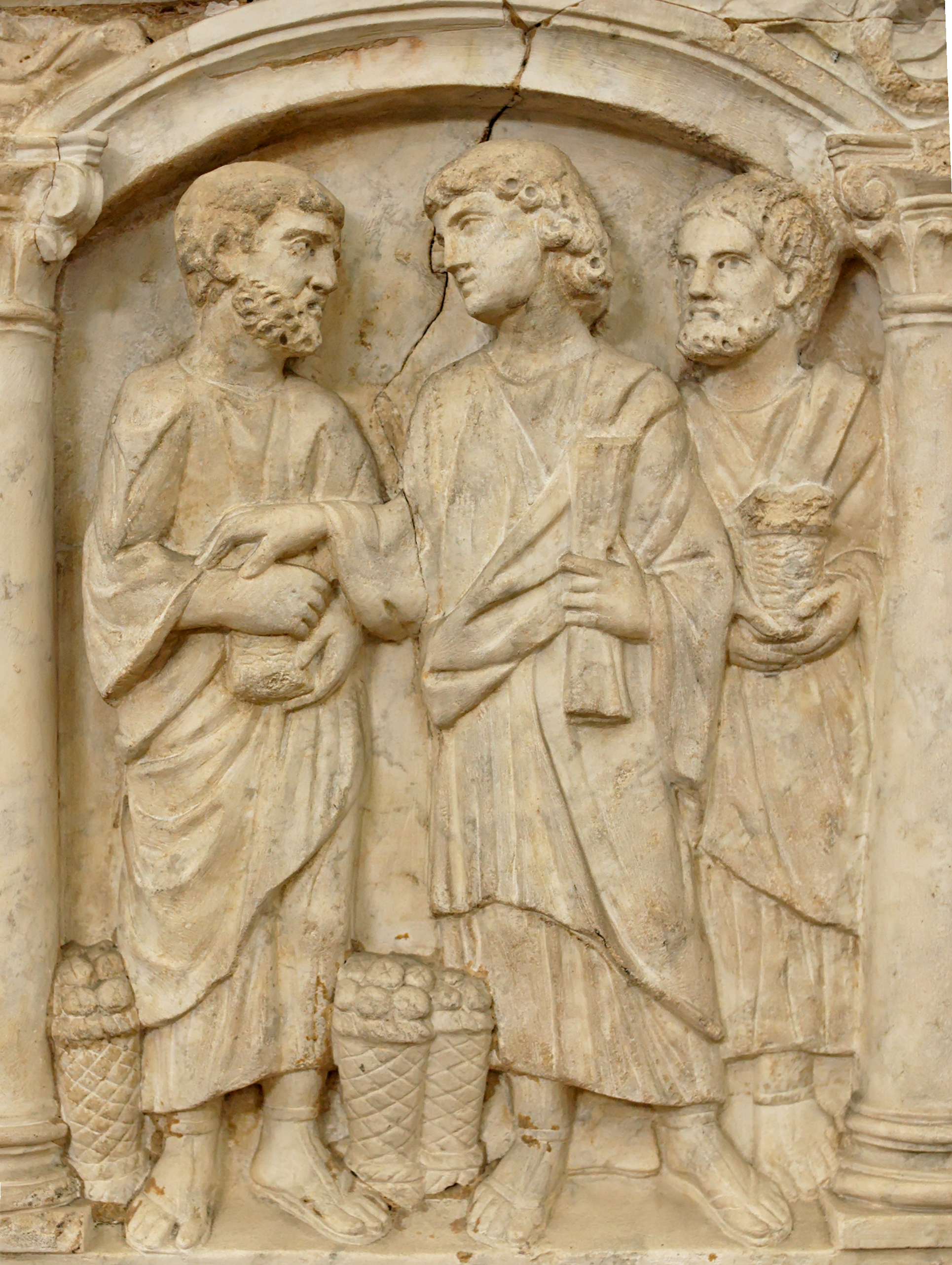 Multiplication of the loaves and fishes. Detail from the front of a columnar sarcophagus, ca. 350-375 CE.